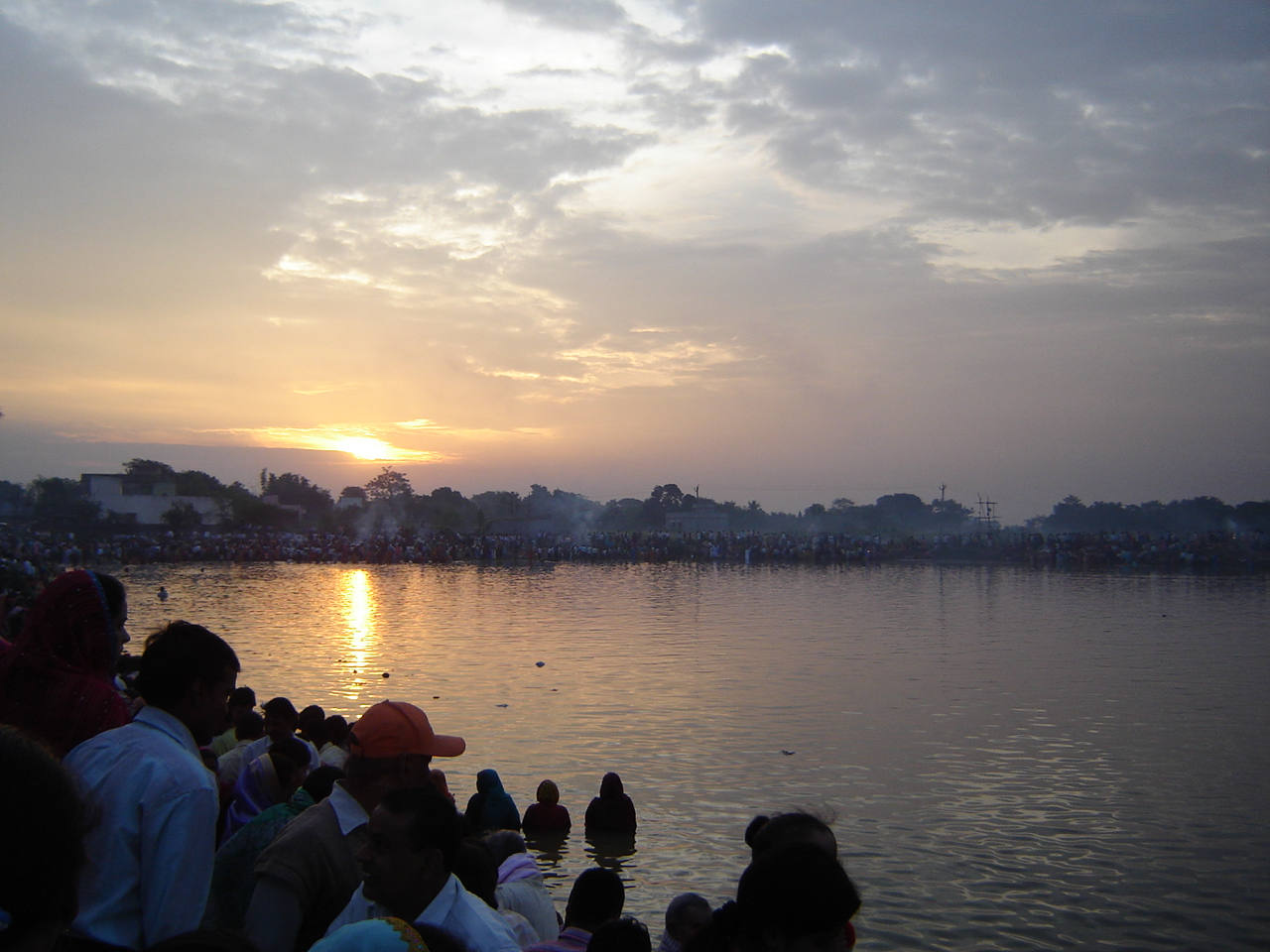 People Celebrating Chhath Festival the 2nd Day at Morning a Tribute to the Rising Holly God SUN (Bagwaan Bhaskar)